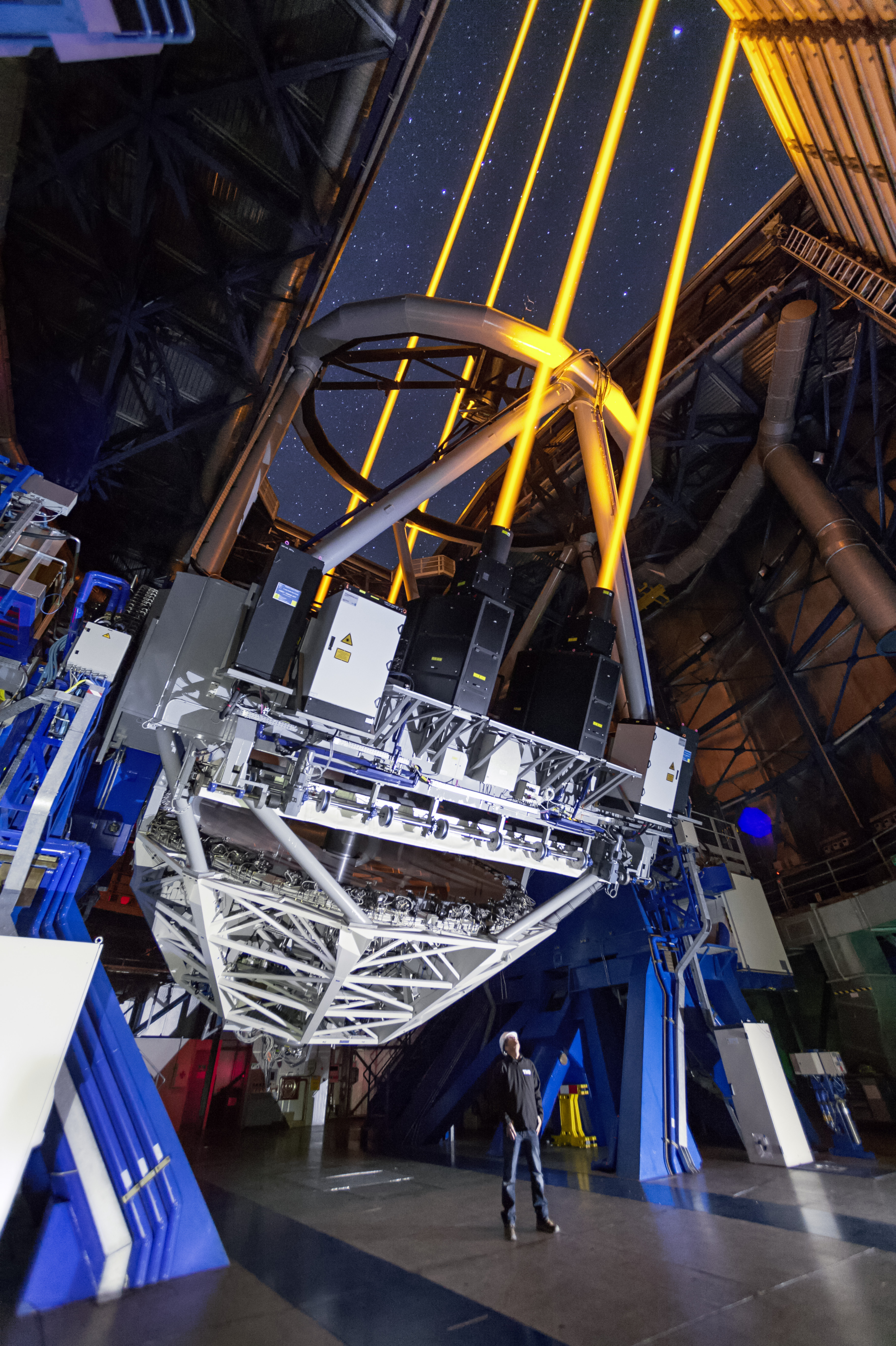 Glistening against the awesome backdrop of the night sky above ESO’s Paranal Observatory, four laser beams project out into the darkness from Unit Telescope 4 (UT4) of the Very Large Telescope (VLT); .they mark the first use of multiple lasers at ESO and they are the most powerful laser guide stars ever used in astronomy. Some 90 kilometres up in the atmosphere, the lasers excite atoms of sodium, creating artificial stars for the telescope’s adaptive optics systems. Modern telescopes use adaptive optics systems to compensate for the blurring effect of the Earth’s atmosphere. To do this, the telescope needs to be able to see a bright reference star while it is observing its main target. However, there is not always a suitably bright star nearby, so astronomers use lasers to create artificial stars exactly where they need them. Sodium atoms high in the atmosphere are made to glow by the action of the lasers, forming tiny patches of light that mimic real stars. Using multiple lasers simultaneously allows the atmosphere’s properties to be better characterised — resulting in a much better image quality in a larger field of view where the image is corrected — than is possible with just one laser. The four lasers just fitted to UT4 serve one of the most sophisticated laser guide star systems ever built and are an example of how ESO enables European industry to lead complex research and development projects. The new lasers will permit the VLT to produce very sharp images, almost at the diffraction limit of the telescope. With this new facility, the Paranal Observatory continues to have the most advanced and the largest number of adaptive optics systems in operation today. This new system will also pave the way for a similar system on ESO’s forthcoming European Extremely Large Telescope, the world’s biggest eye on the sky.